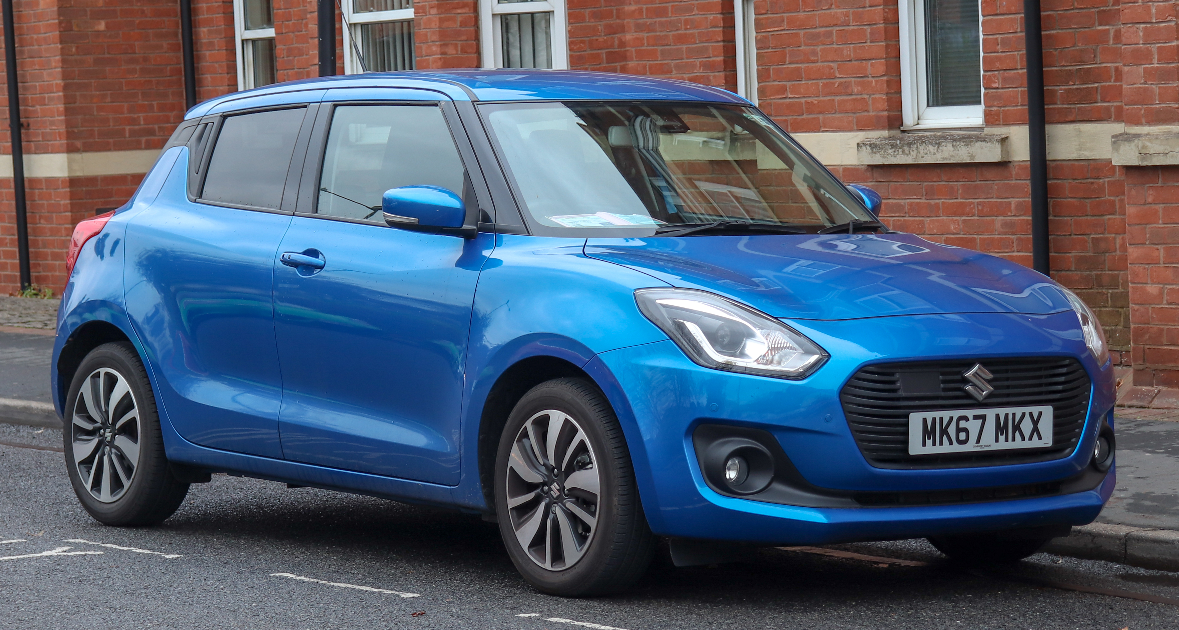 2018 Suzuki Swift SZ5 Boosterjet SHVS 1.0 Front Taken in Leamington Spa